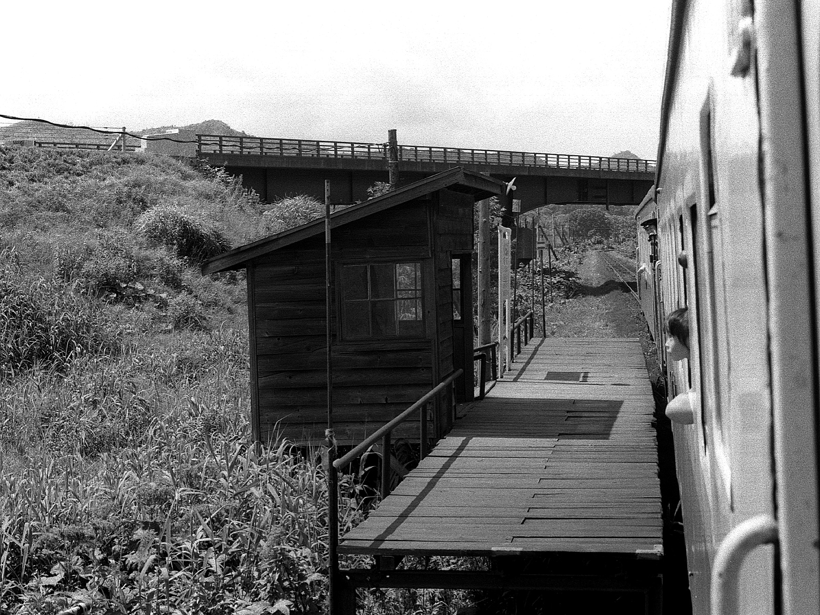 KIHA22 stopping at Sakuraba station.